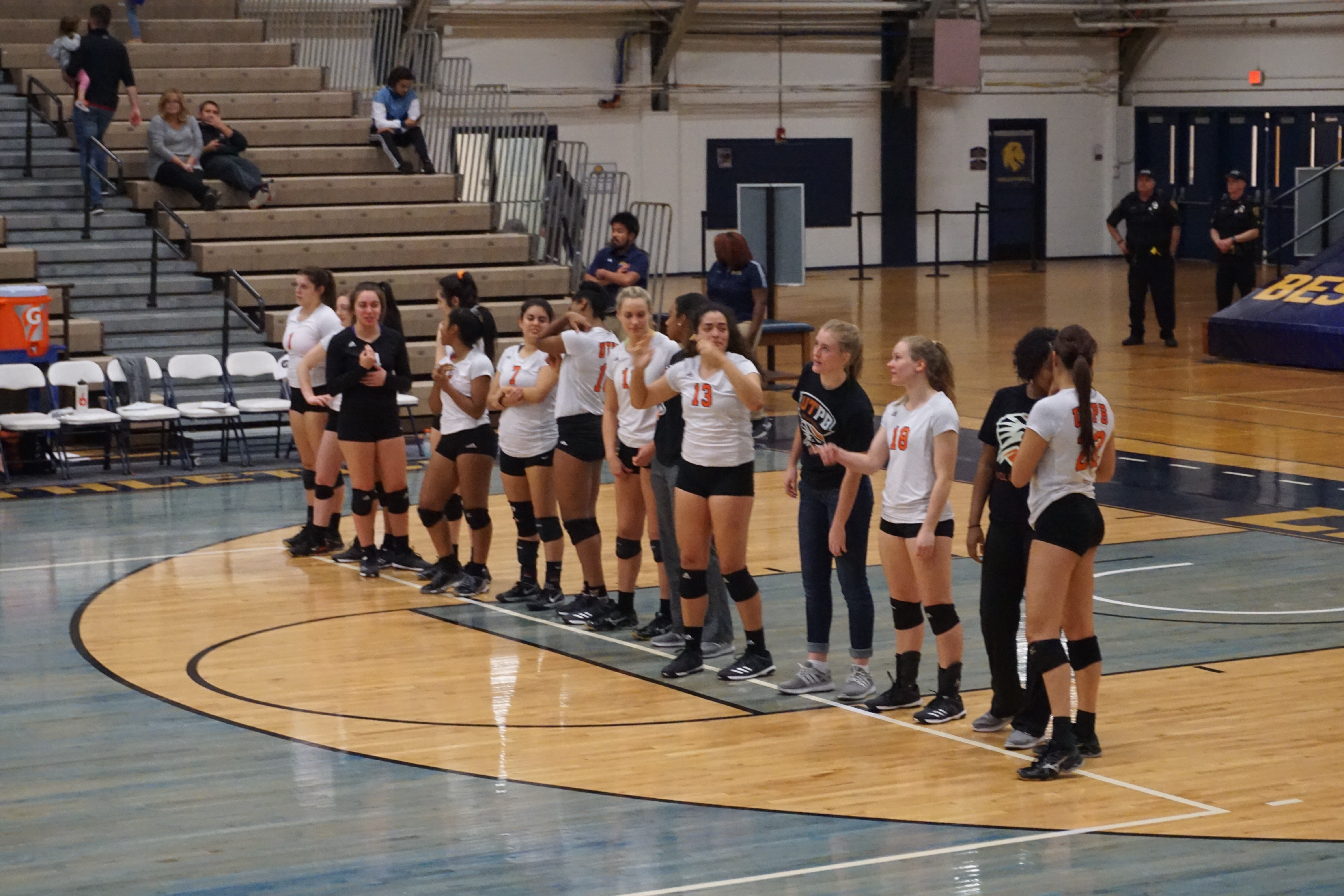 Texas–Permian Basin before the Texas–Permian Basin Falcons vs. Texas A&M–Commerce Lions women's volleyball match at the Field House in Commerce, Texas (United States). A&M–Commerce won 3–1 (25–19, 22–25, 25–9, 25–22).